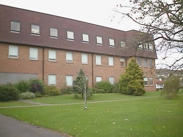 Long Ashton Research Station, Bristol This view shows the south side of the Hirst Laboratory.